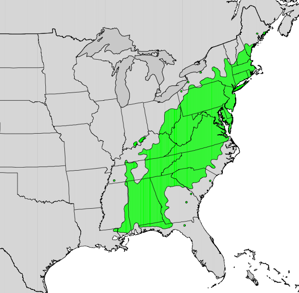 Range distribution map of Kalmia latifolia.